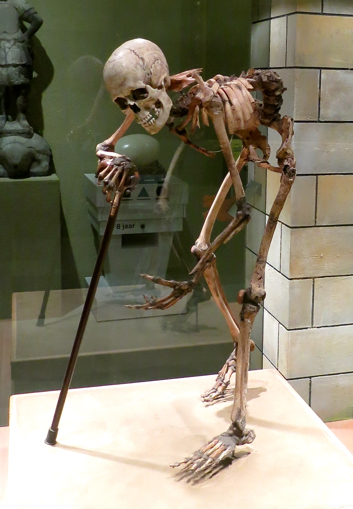 Skeletal remains of a woman with severe scoliosis. She died between 1350 and 1450 at the age of aproximately 35.